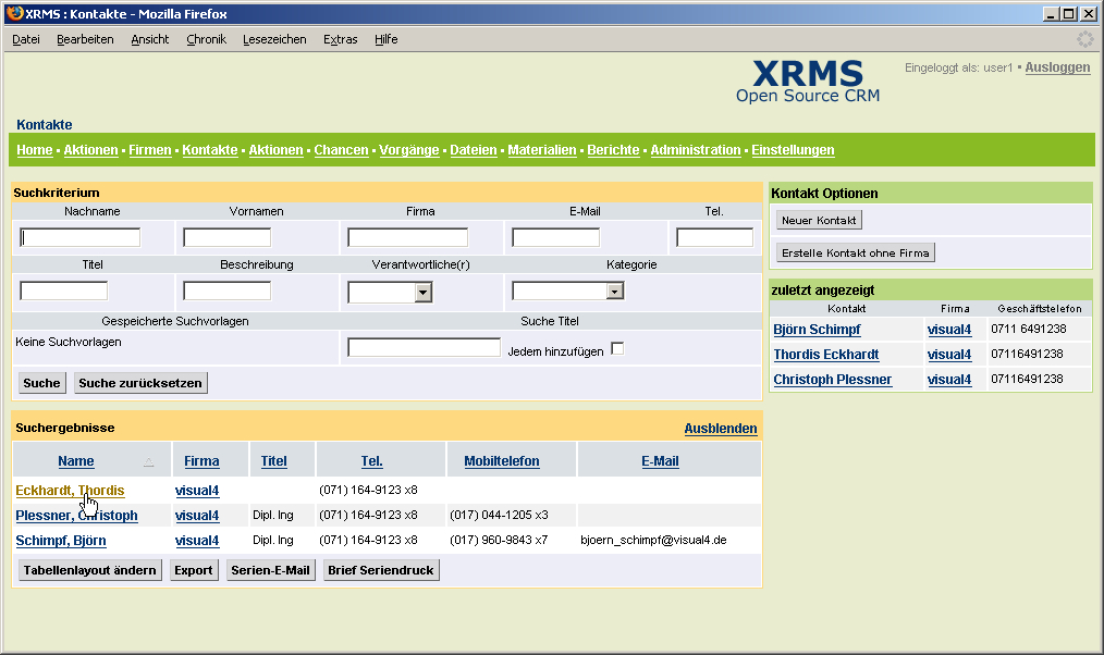 Screenshot XRMS Contact List